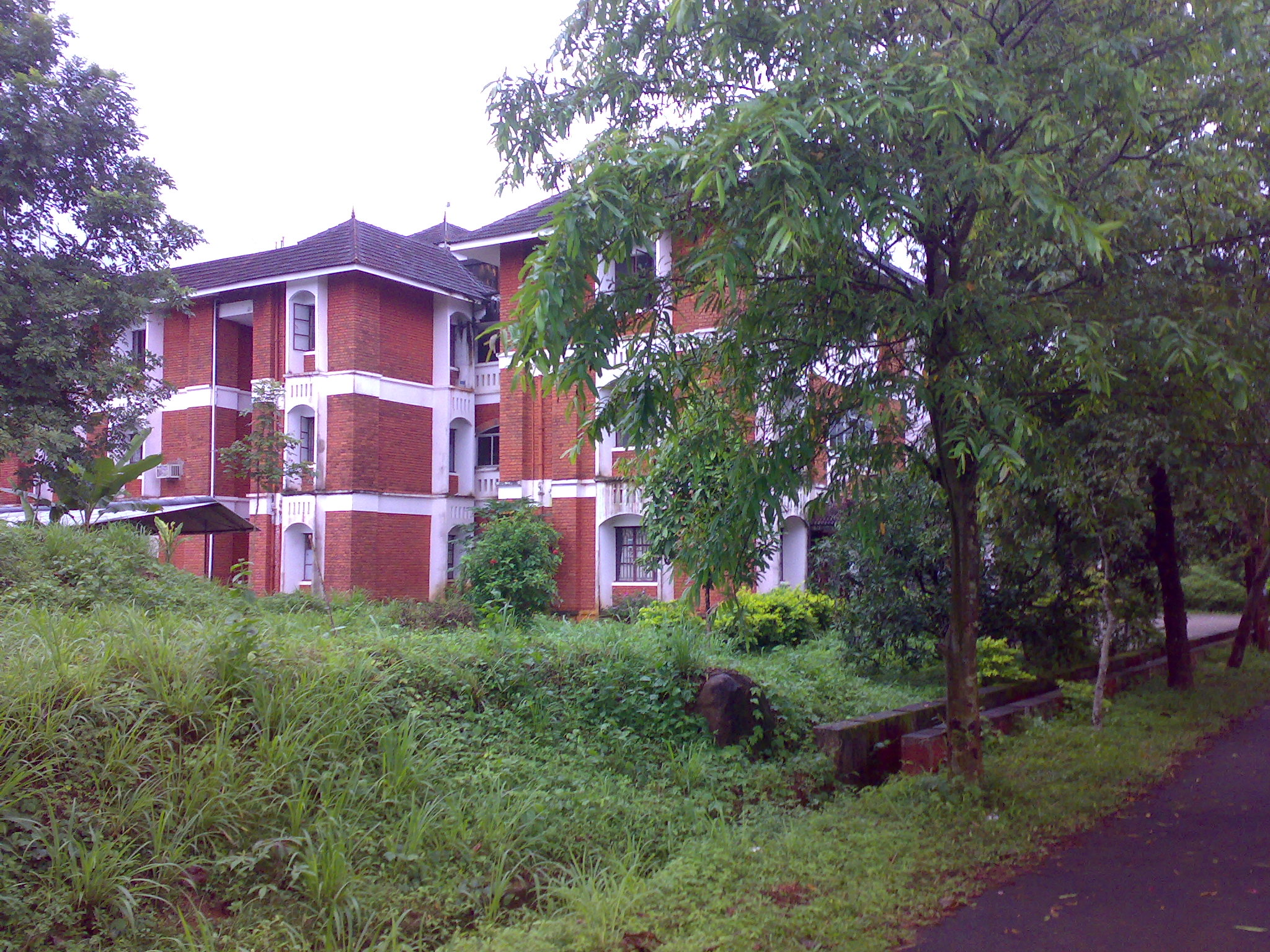 M.G. University College of Engineering